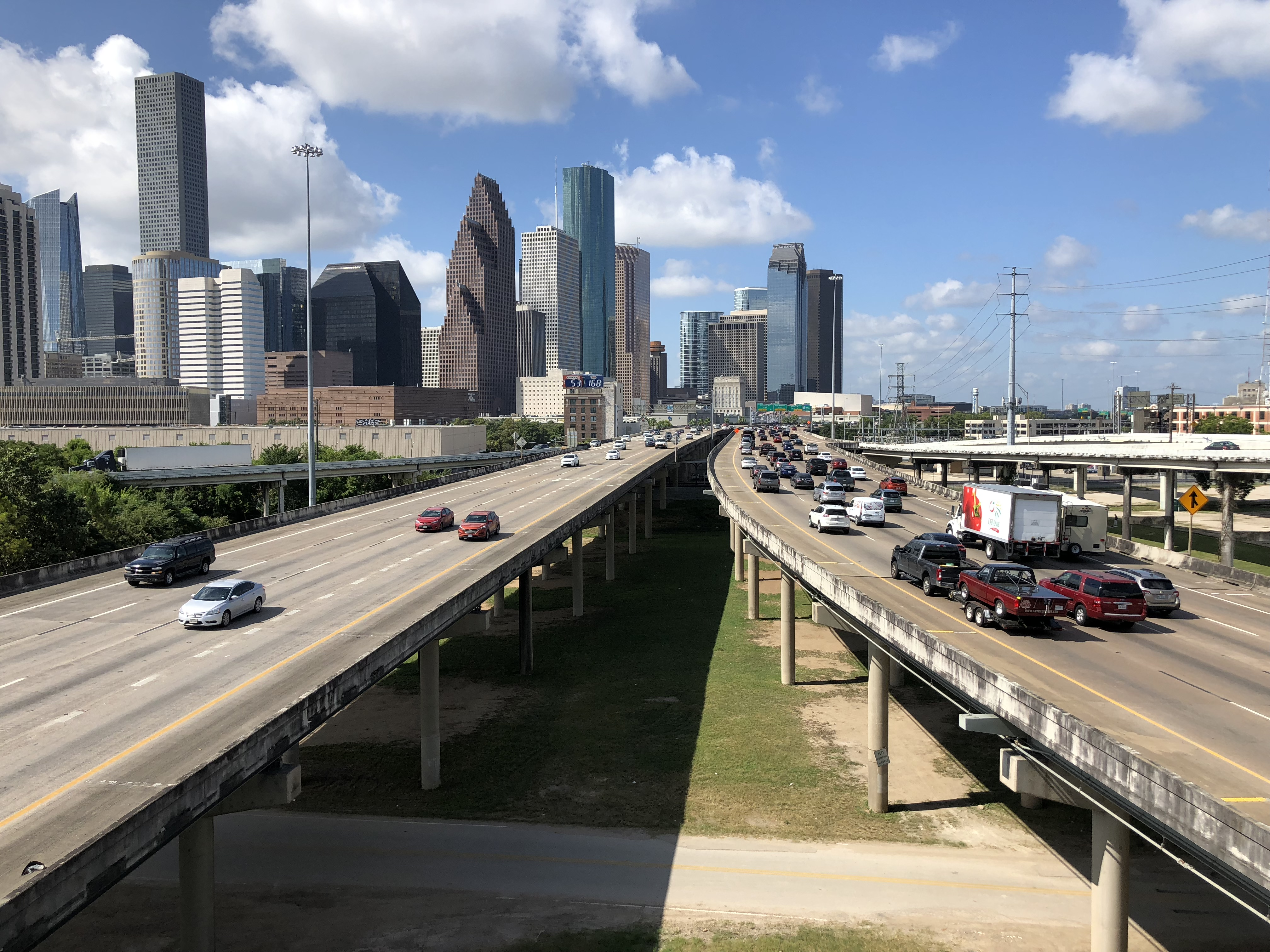 View south along Interstate 45 (North Freeway) from the ramp between westbound Interstate 10 and southbound Interstate 45 in Houston, Harris County, Texas